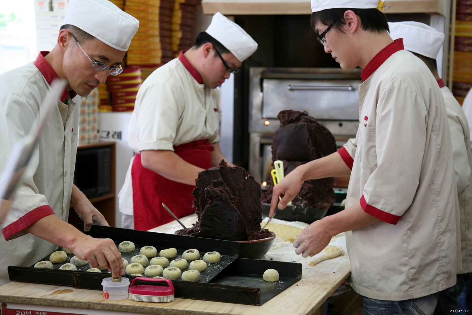 Bakers makin Gyeongju bread at a Bonga Gyeongju Bread Bakery in Gyeongju, North Gyeongsang province, South Korea